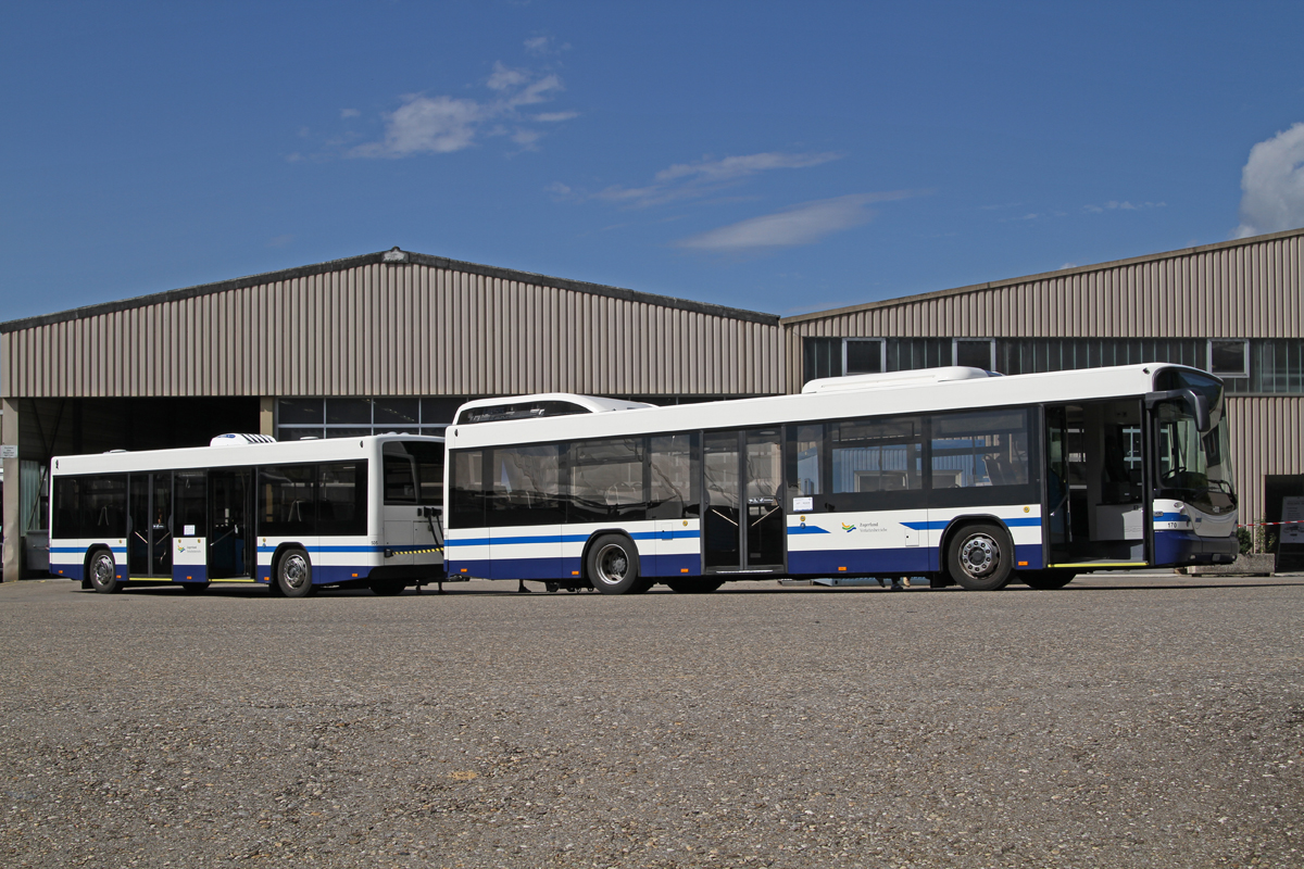 A Hess BusZug31 for Zugerland Verkehrsbetriebe seen at Hess' workshop in Bellach while a open house.